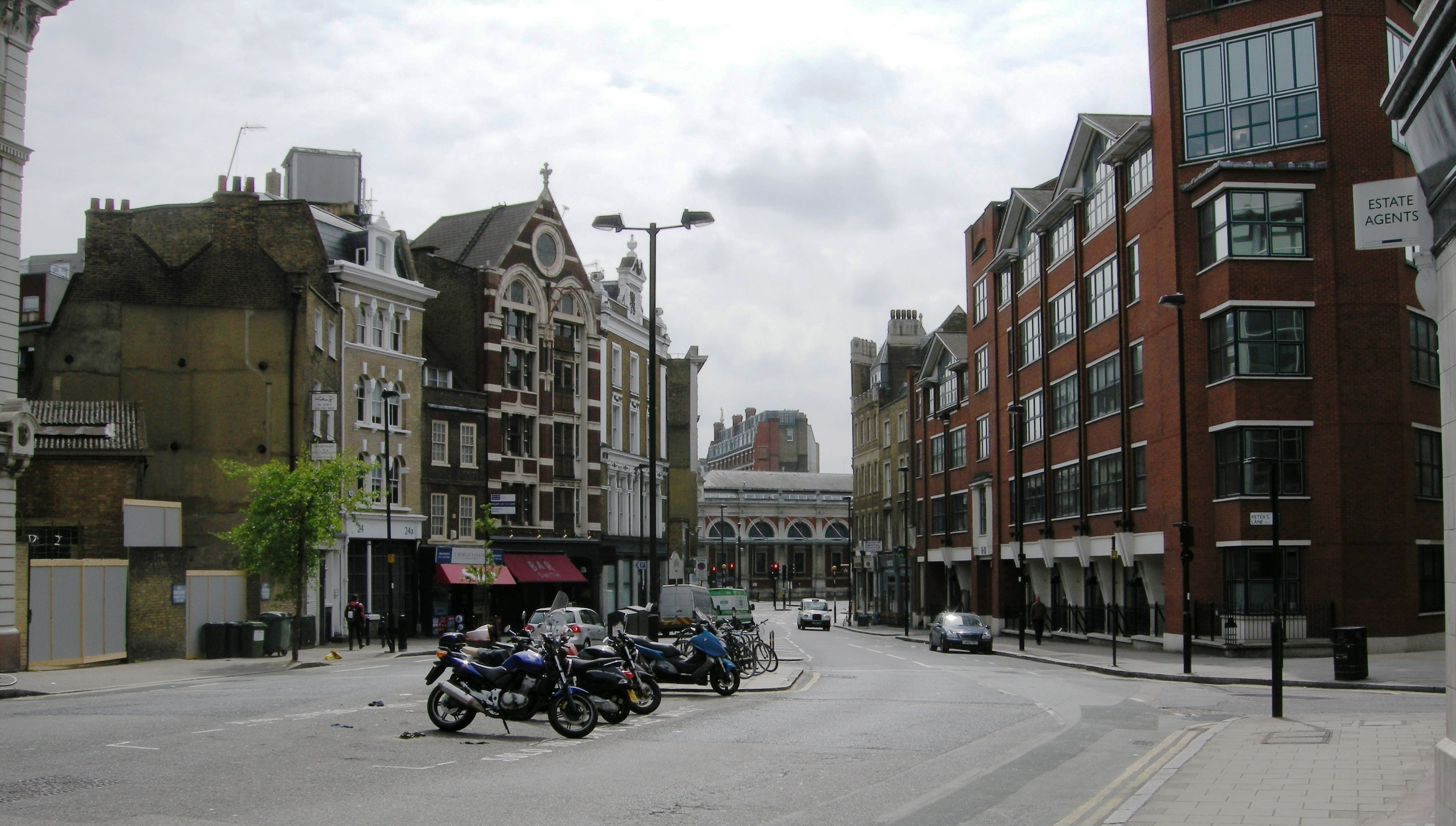 View of the southern end of St John Street, Clerkenwell, London (looking south), with Smithfield Market visible in the distance. The broadening of the street at this point, and the "island" in the middle of the road (with parked motorcycles), mark the site of Hicks Hall (1612–1782), the former sessions house for the county of Middlesex.